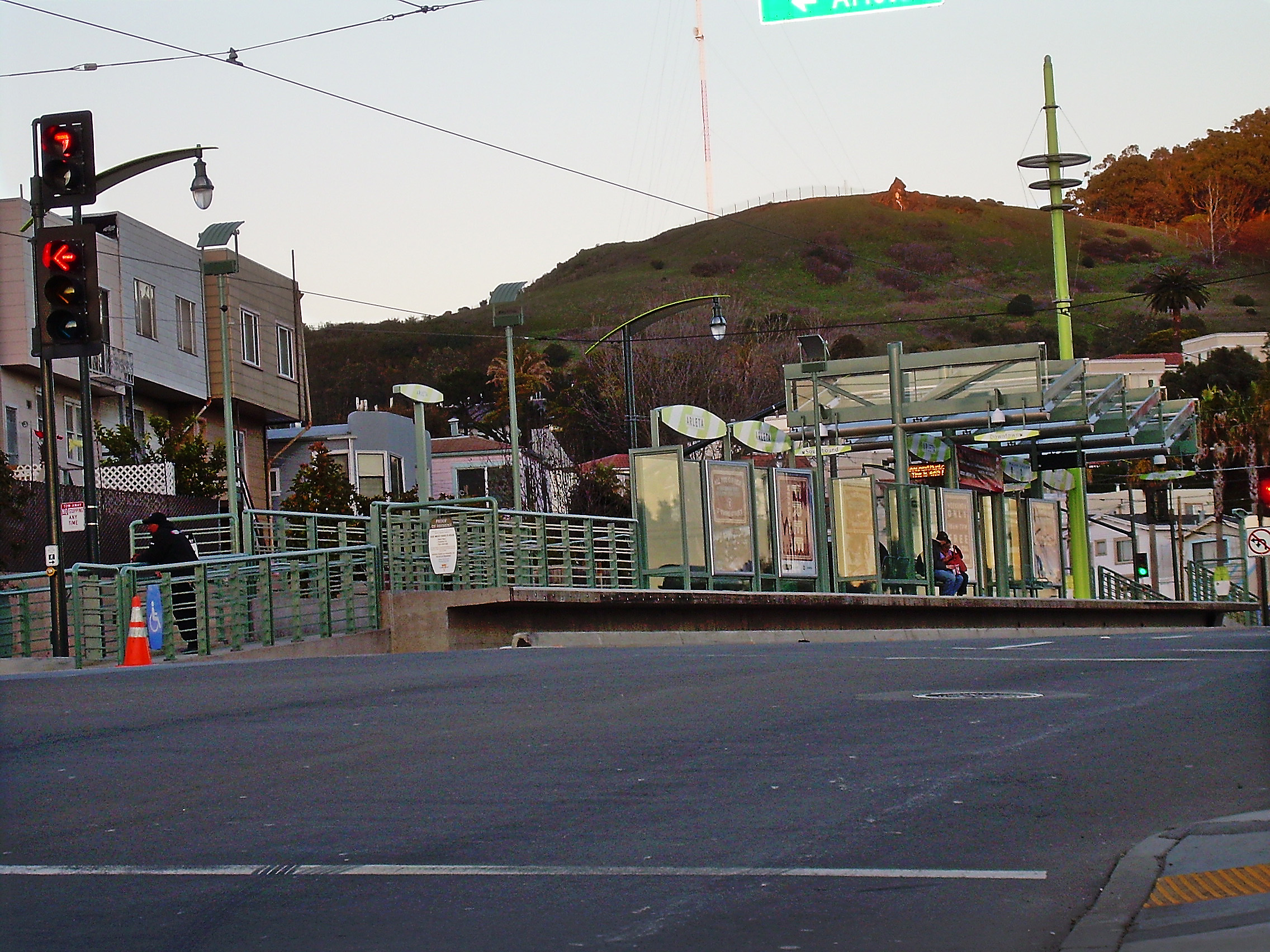 Muni T-Third Line, Arleta Station in San Francisco.